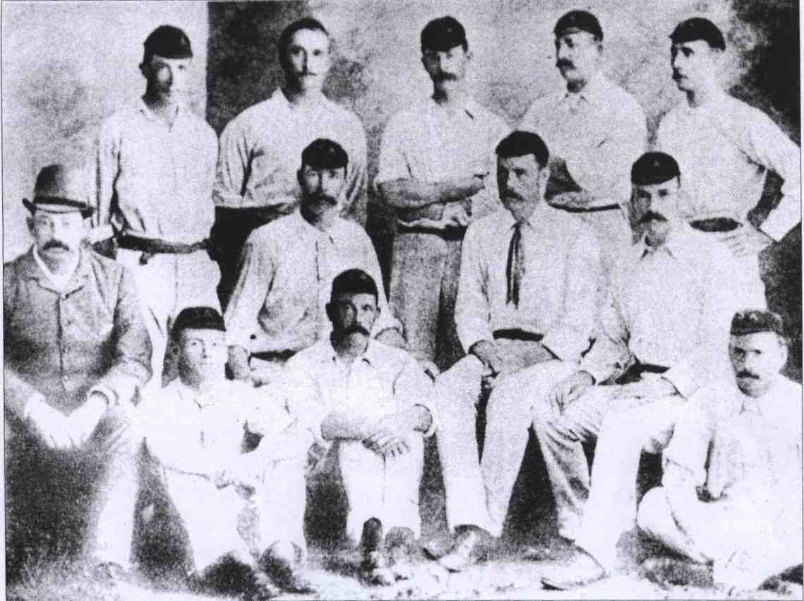 Taken from but the copyright has expired. This is the 1888/9 South African team that played in the first Test at Port Elizabeth, Back: A R Innes, A B Tancred, C E Finlason, C H Vintcent, F W Smith. Middle: C Deare (Umpire) P Hutchinson, O R Dunell, W H Milton Front: A E Ochse, R B Stewart, G A Kempis